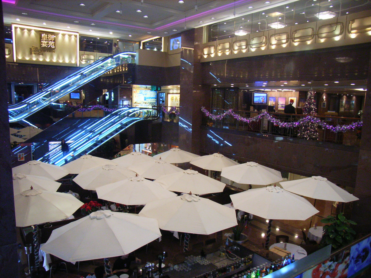 Tsim Sha Tsui Center and Empire Center, 帝國中心